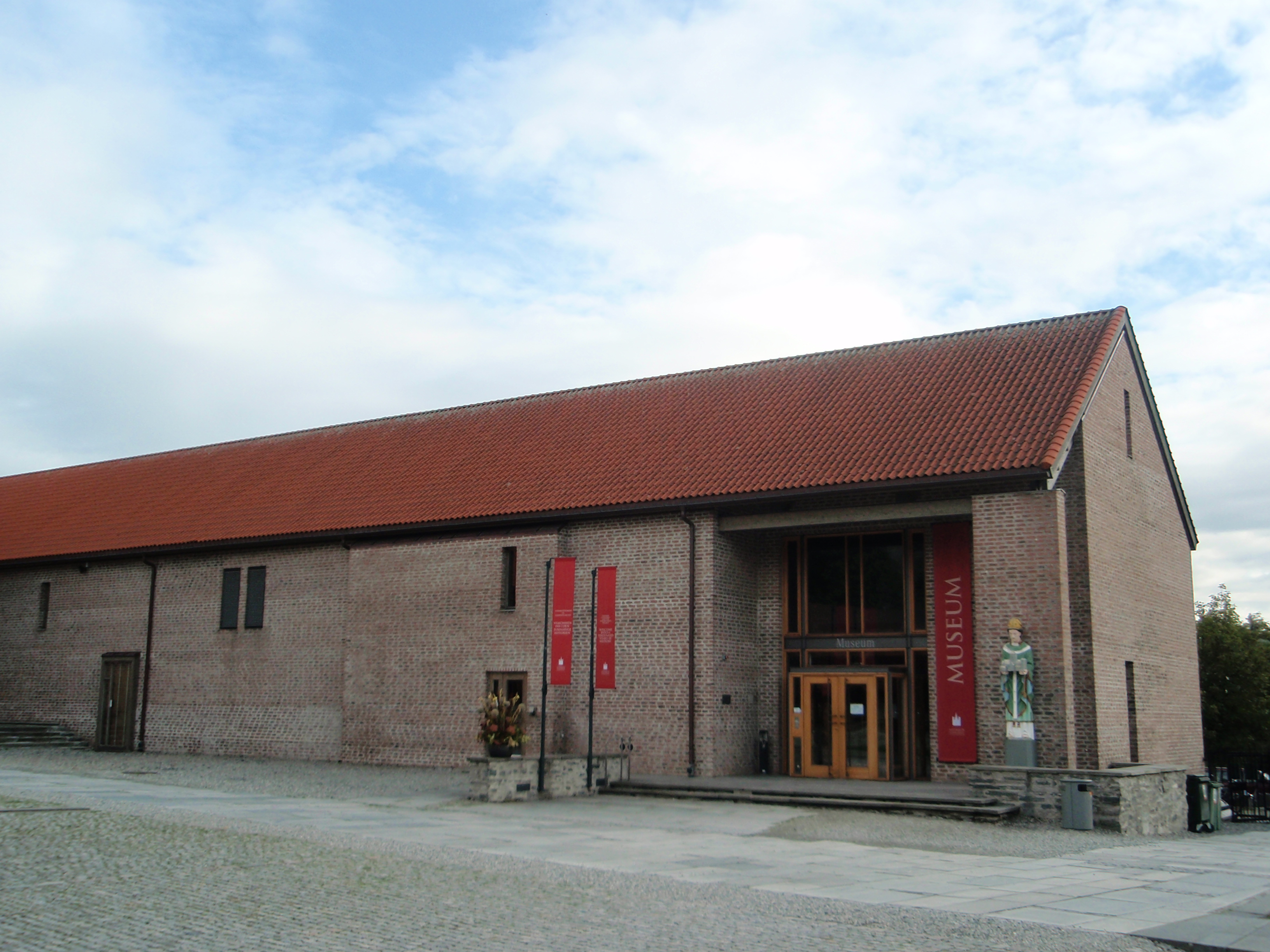 Museet Erkebispegården (The museum in the Archbishop's Palace) in Trondheim, Norway.